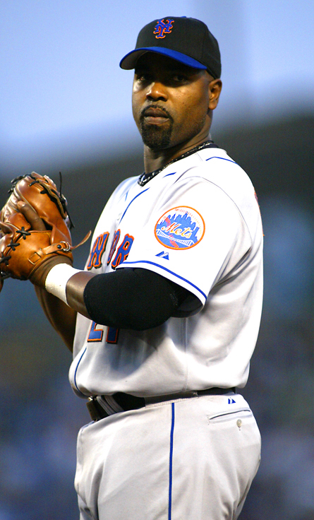 New York Mets first baseman, Puerto Rican born, Carlos Delgado. Photo by Rafael Amado©